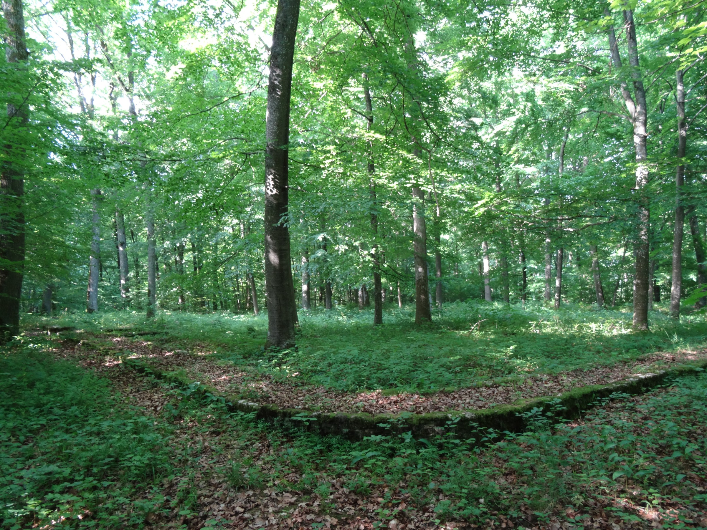 Roman fortlet Hönehaus near Buchen-Hettingen (Germany), north-east corner, view through the fortlet, on the left: east entrance